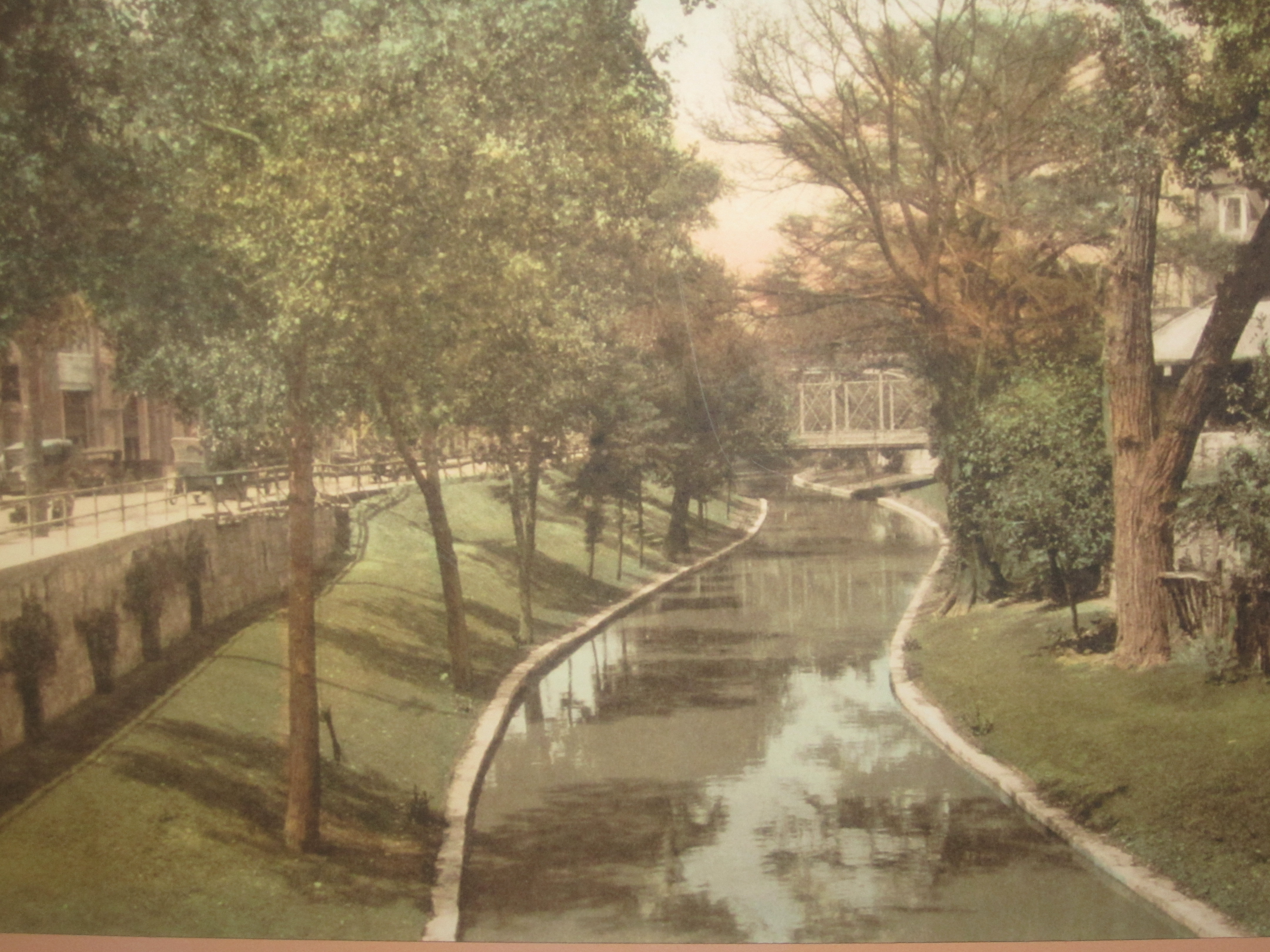 I took photo of San Antonio under "City Beautiful movement" at Witte Museum, with Canon camera.